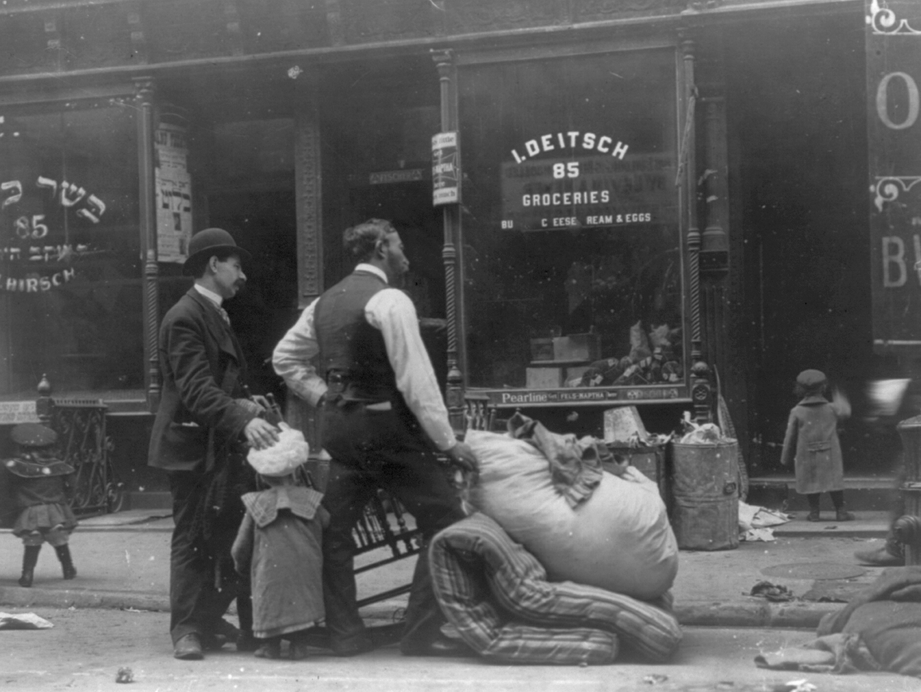 New York - East Side eviction. Two men standing on sidewalk with possessions. Slightly cropped from original.Israel Deitch grocery store at 85 Willett Street, Manhattan